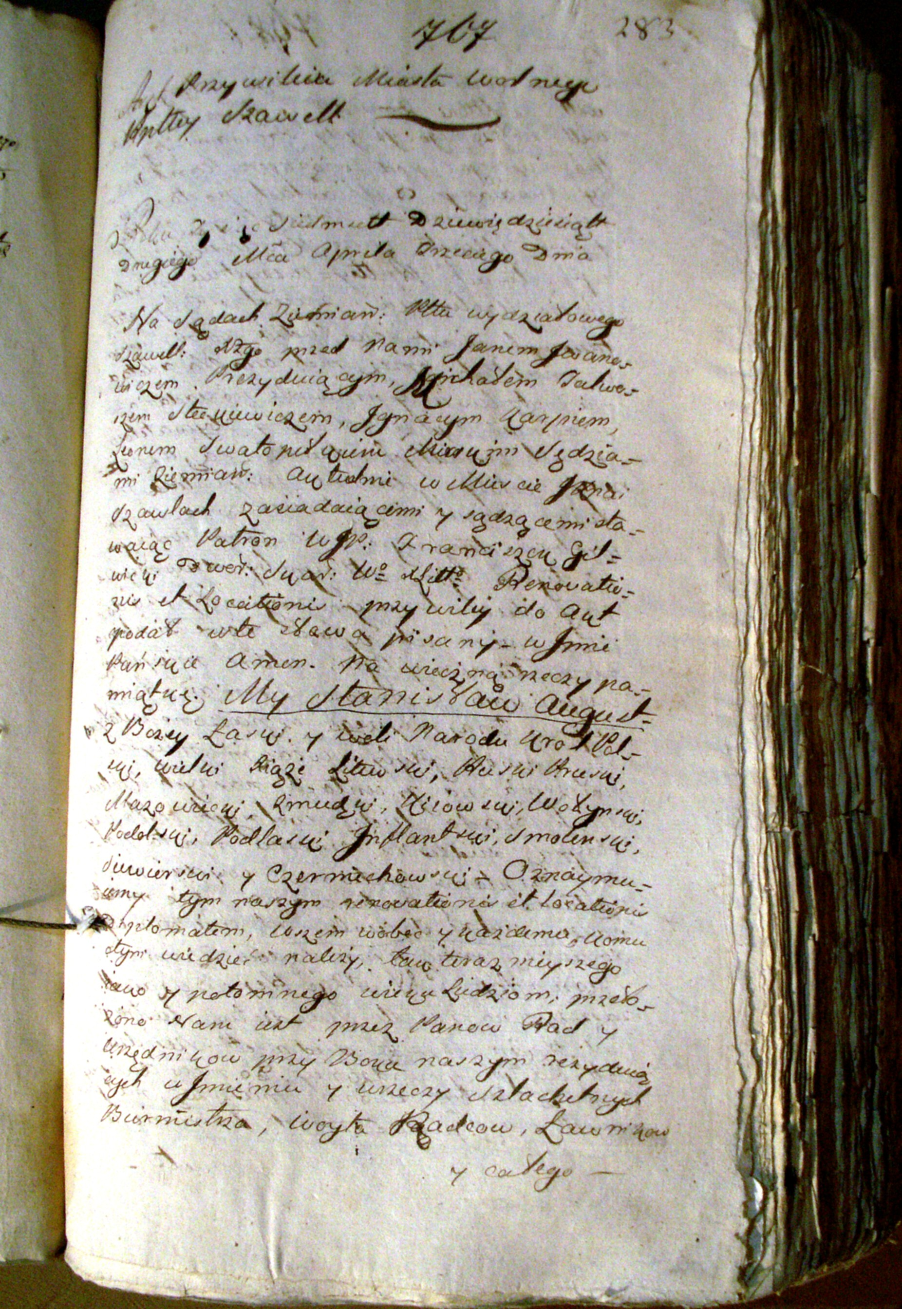 Privilegium of Stanislaus August for Šiauliai, 1791. Museum Aušra